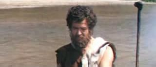 Screenshot from the trailer of the film King of Kings.